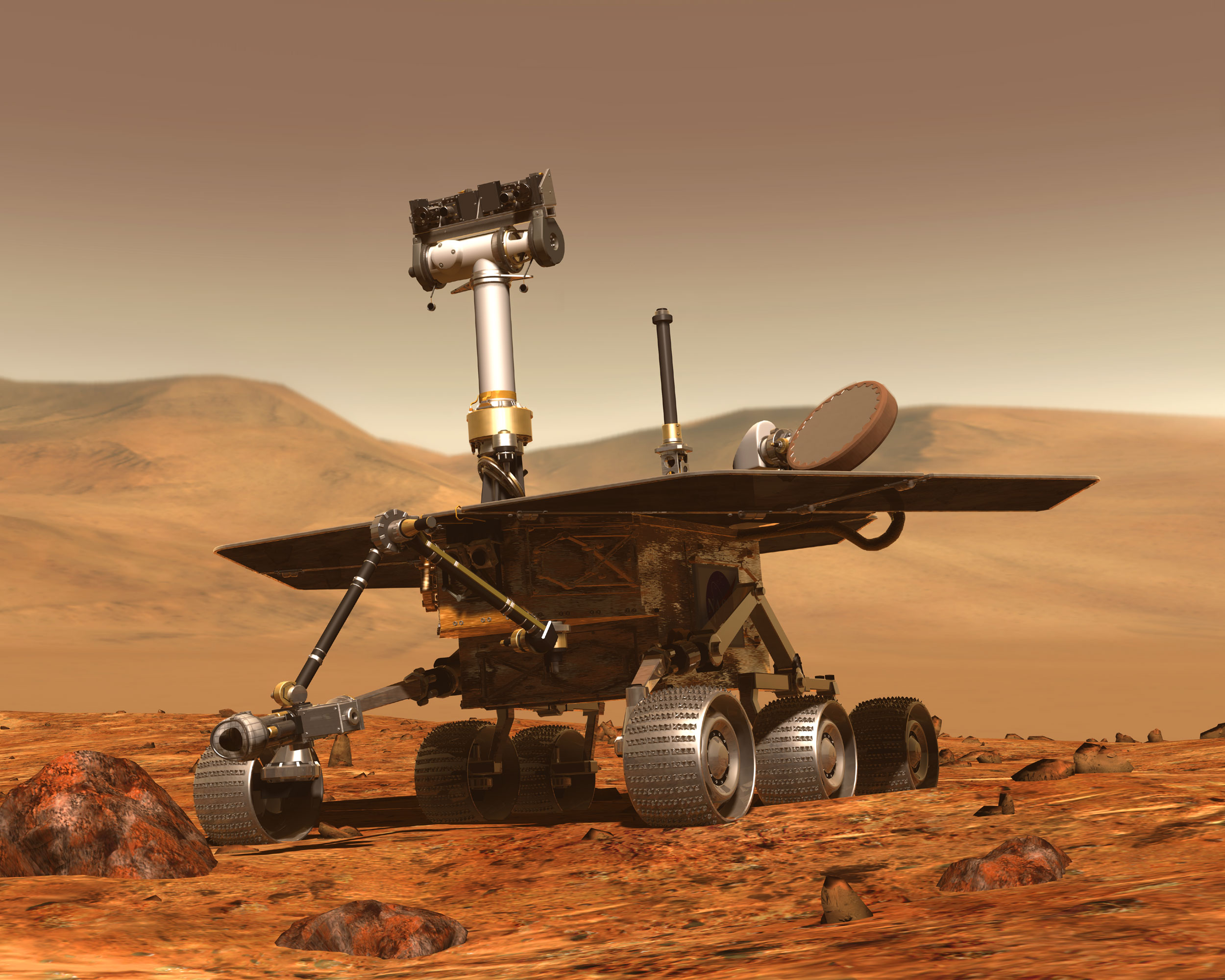 One of Mars Exploration Rovers（Artist’s concept）